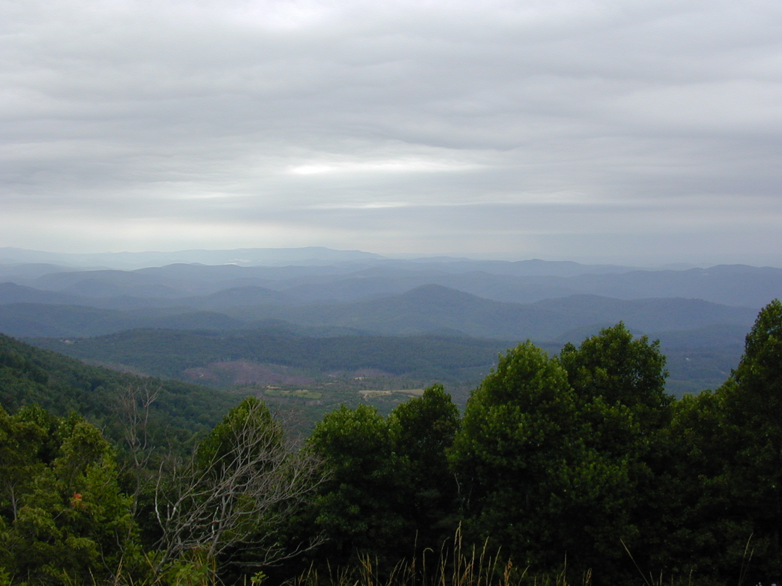 View over Black Mountains from Blue Ridge Parkway Photo by Jan Kronsell, 2002.